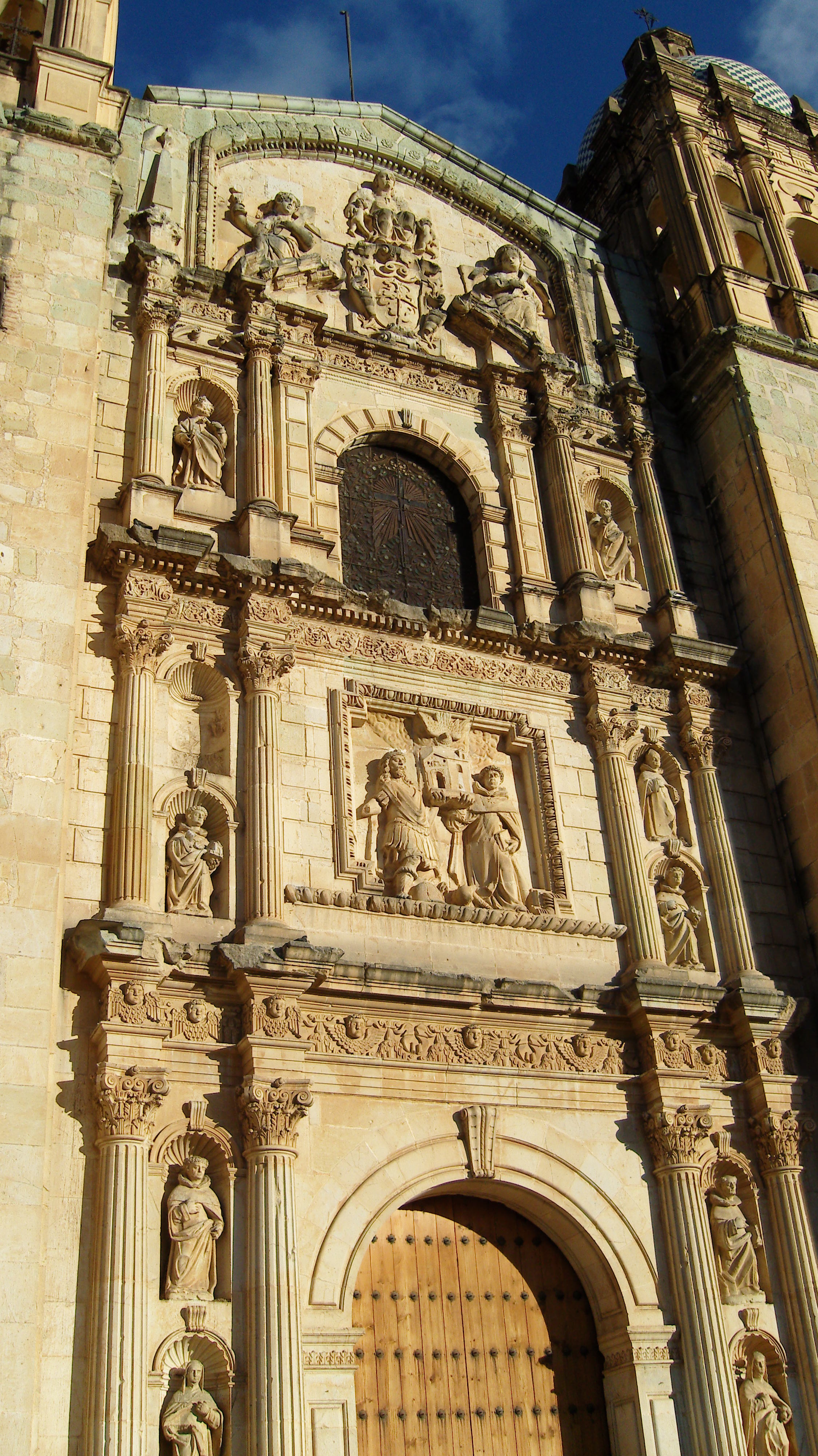 Facade of the temple of Santo Domingo in the city of Oaxaca, Mexico